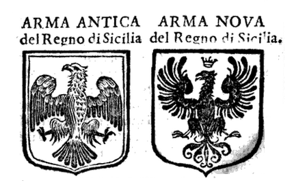 Coats of Arms of the Kingdom of Sicily (ancient and modern), according to Agostino Inveges